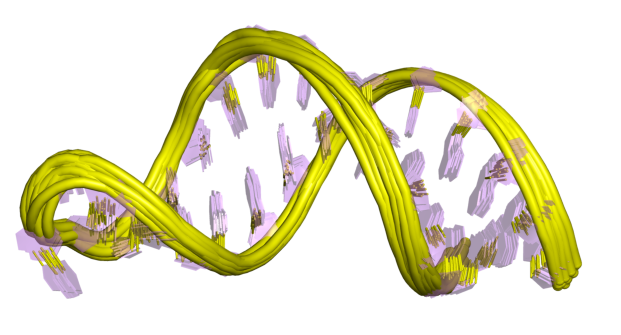 Cartoon representation of the molecular structure of protein registered with 2gio code.